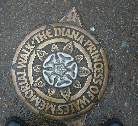 Princess Diana Memorial Walk